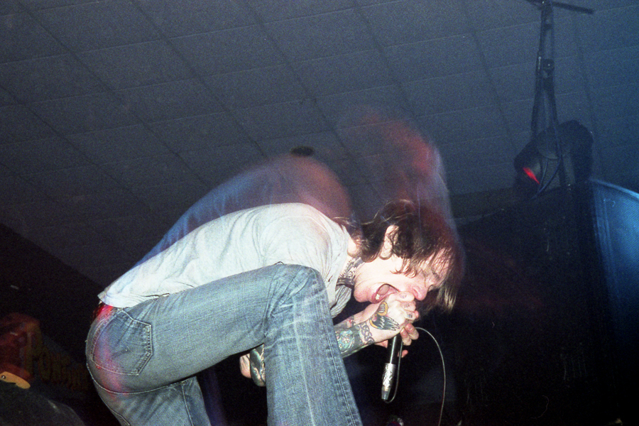 Jacob Bannon of Converge performing at All Tomorrows parties UK, in 2004